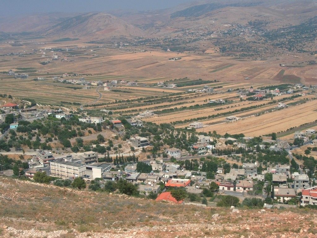 Al-rafid, Lebanon, Northeast side